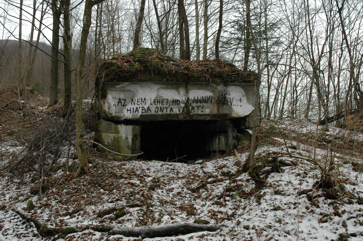 A pillbox of Árpád Line in the Latorice River valley